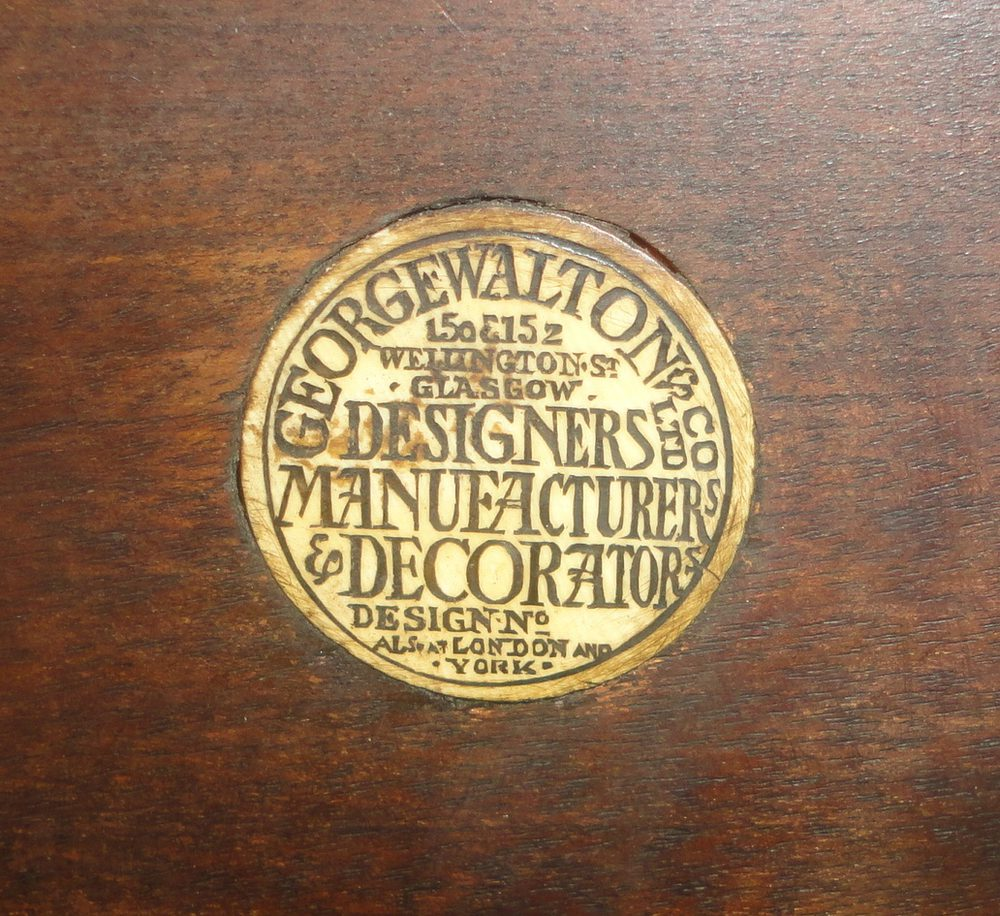 Manufacturer's button used by George Henry Walton on his furniture